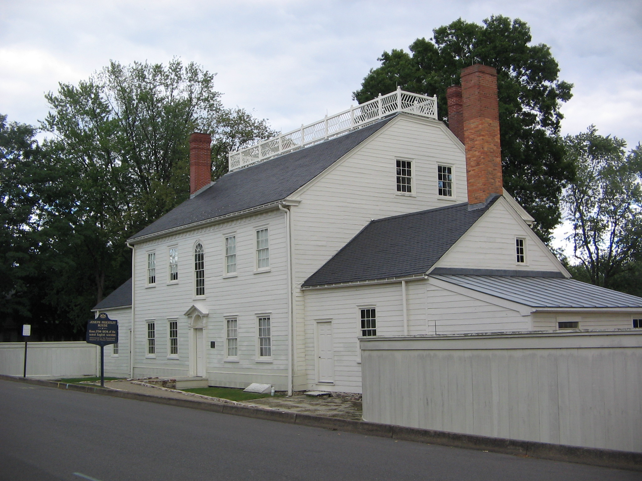 Priestley Avenue (northwest) side of the Joseph Priestley House in Northumberland, Northumberland County, Pennsylvania, USA. This was the rear of the house when constructed. Note Pennsylvania Historical and Museum Commission state historcial marker. Laboratory was at left, main house in center, kitchen at right.